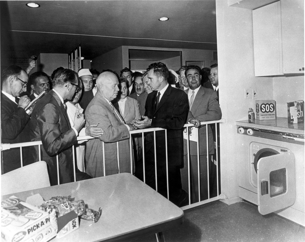 Vice-President Nixon spars with Premier Khrushchev before reporters and onlookers, including Politburo member Leonid Brezhnev at the American National Exhibition at Sokolniki Park, in Moscow, 1959. Nixon and Khrushchev are photographed in front of a kitchen display – the impromptu exchanges came to be known as the Kitchen Debate, July 24, 1959.